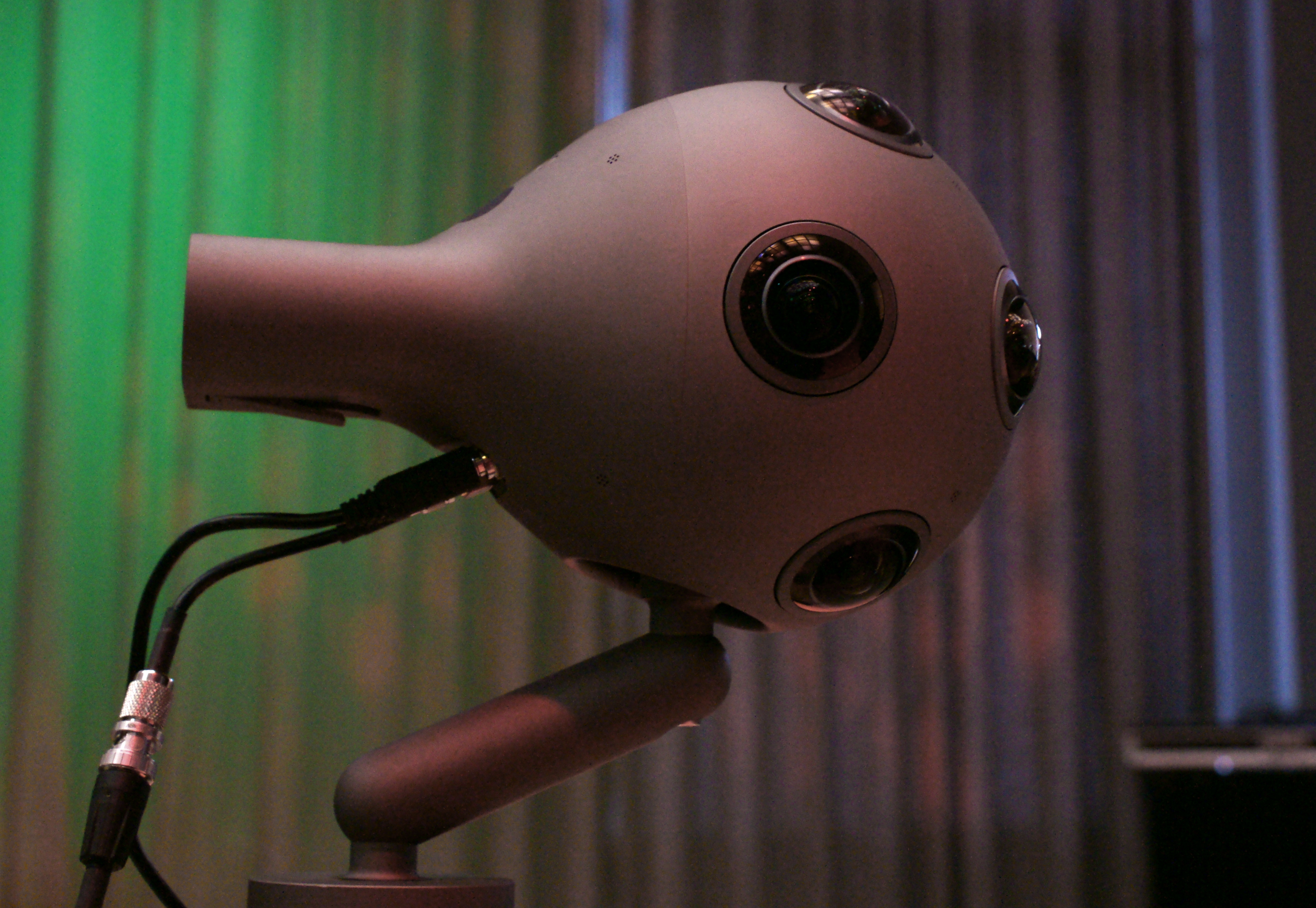 VR-camera, photographed at Göteborg Film Festival 2017.